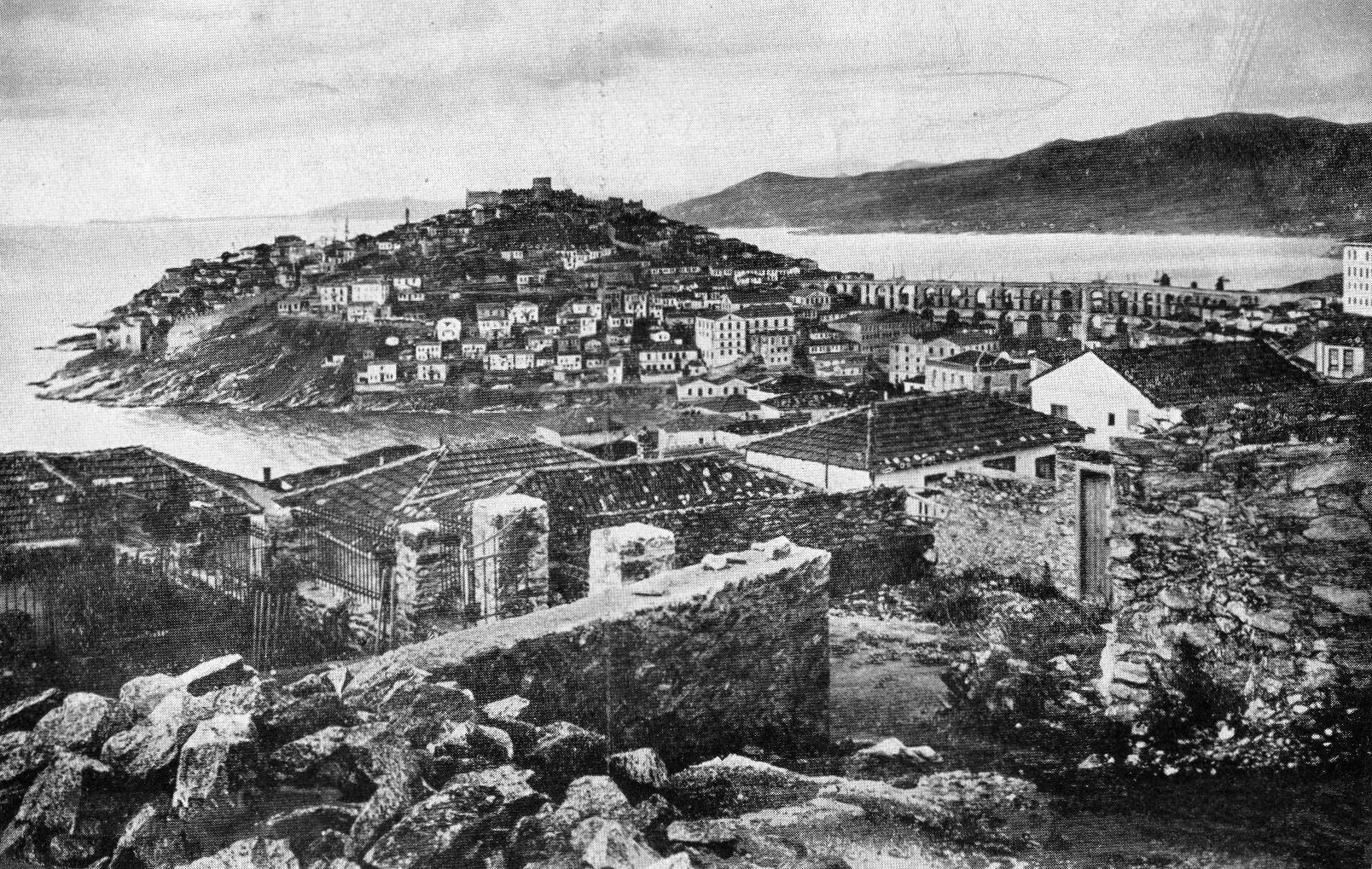 Kavala, fortress and part of the sea This media file is produced by Wikipedian in Residence in Category:Wikipedian in Residence at DARM in 2016.